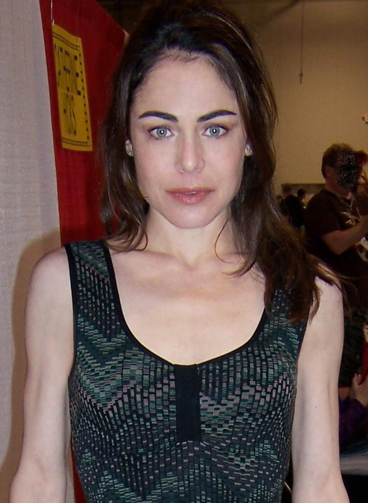 Actress Yancy Butler at the Motor City Comic Con May 16, 2009.